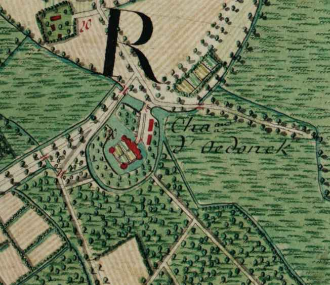 Ooidonk_castle,_Belgium_;_ detail from Ferraris_Map